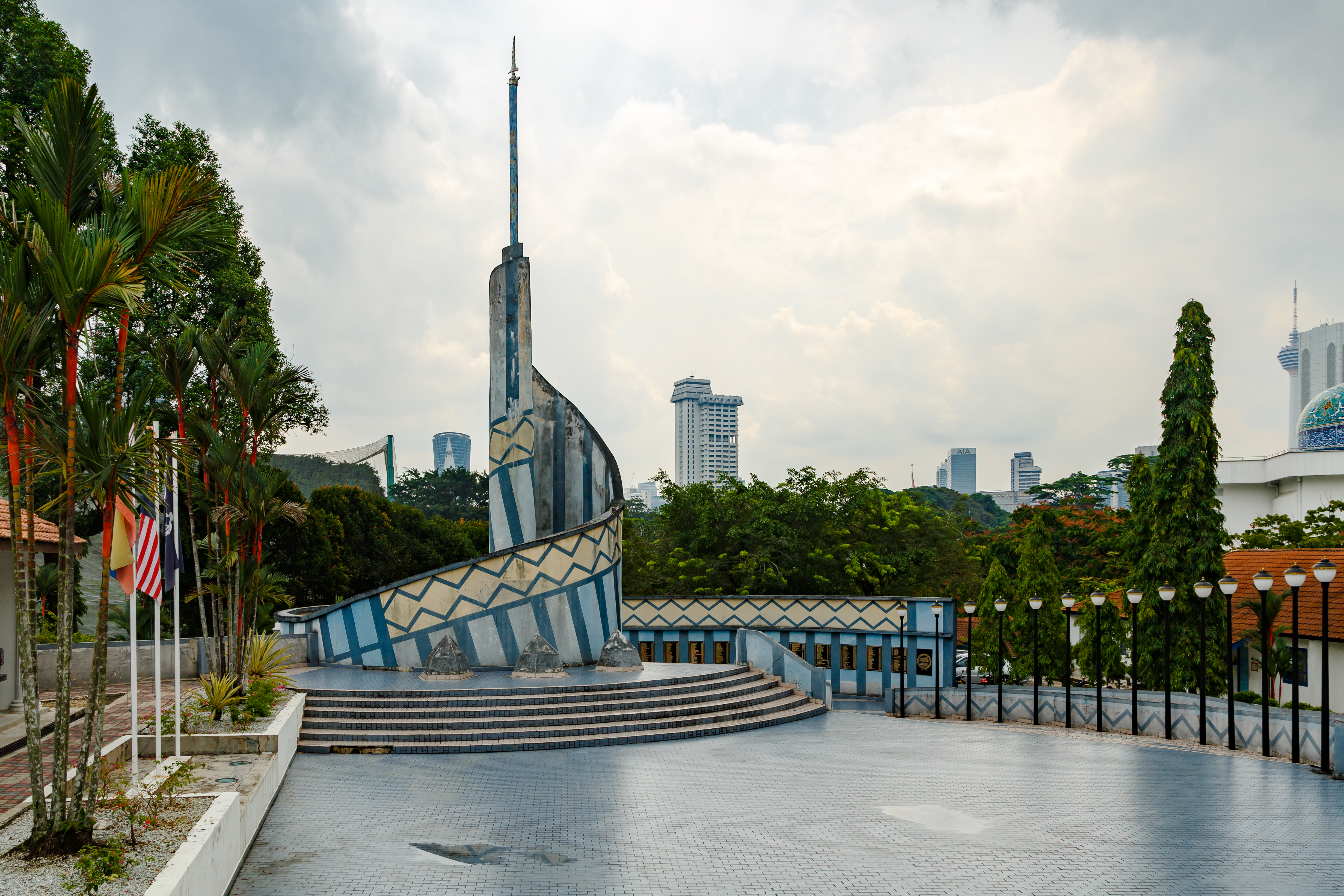 Kuala Lumpur, Sabah: Dataran Perwira (Warrior Square) is the monument for the policemen who were killed in action. The memorial was set aside on the compound in the PDRM Museum